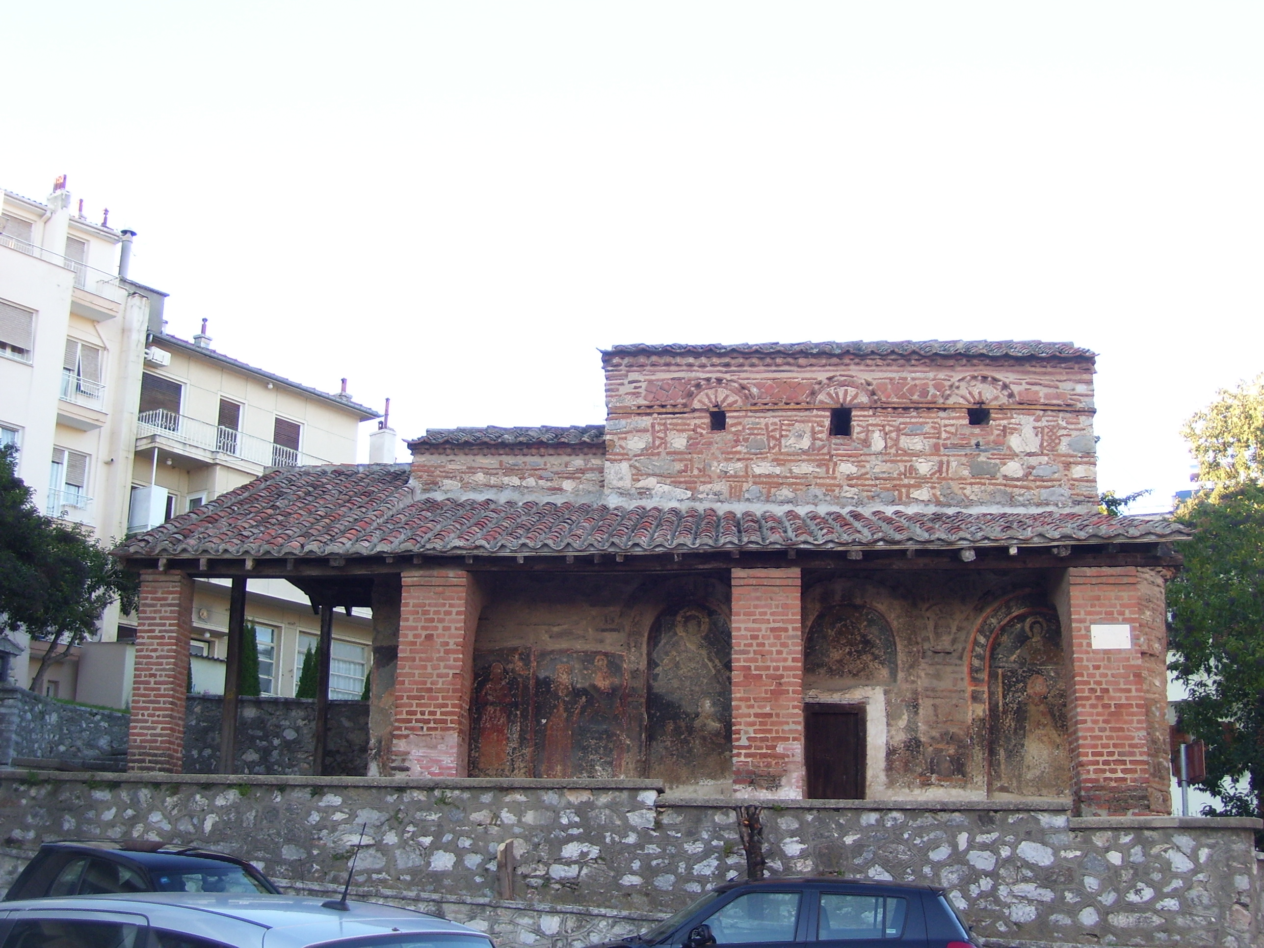 Church of Taxiarchis Mitropoleos, Kastoria, Greece.